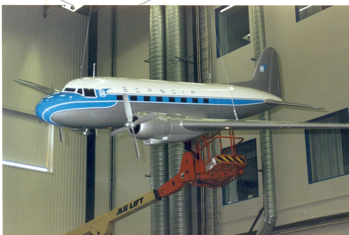 SAAB 90 Scandia (del) (cur) 17:53, 22 April 2006 . . Ballista (Talk) . . 1175x791 (564455 bytes) (my own photo GFDL-self Talk )